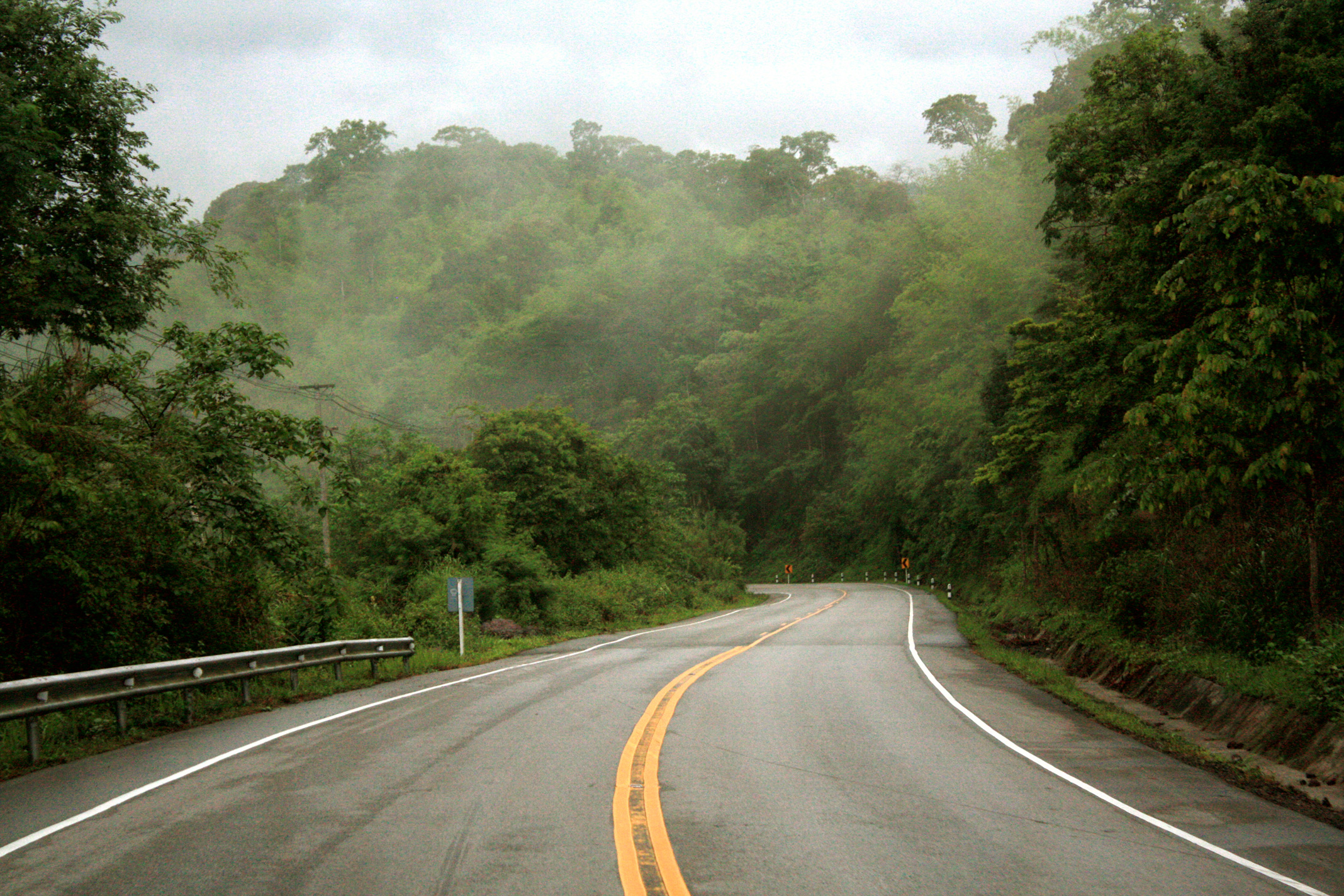 Highway 12, Nam Nao National Park, Amphoe Nam Nao, Phetchabun Province